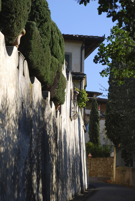 Villa Capponi, Florence, Italy. House and West Garden Wall (close view).